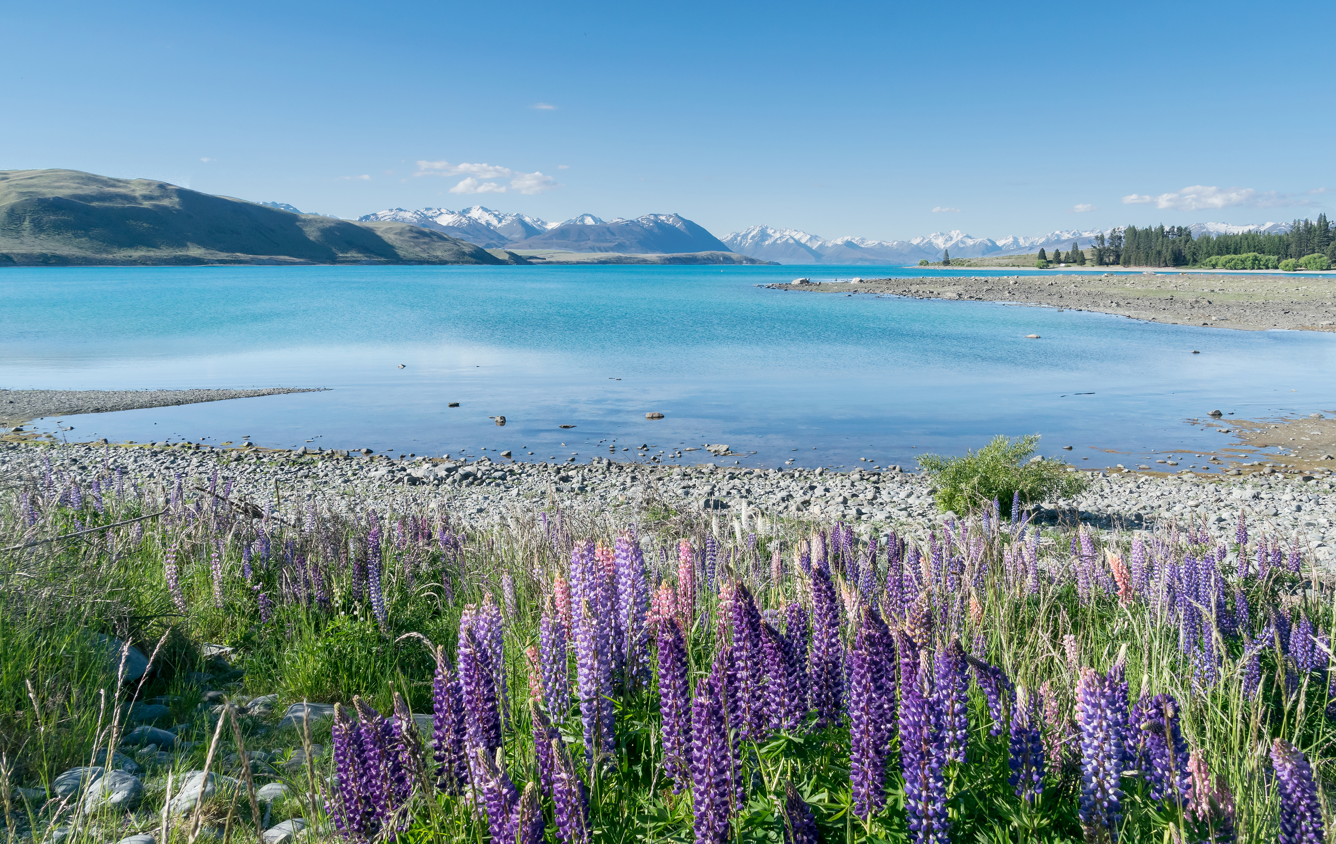 Lake Tekapo in Canterbury Region, New Zealand.